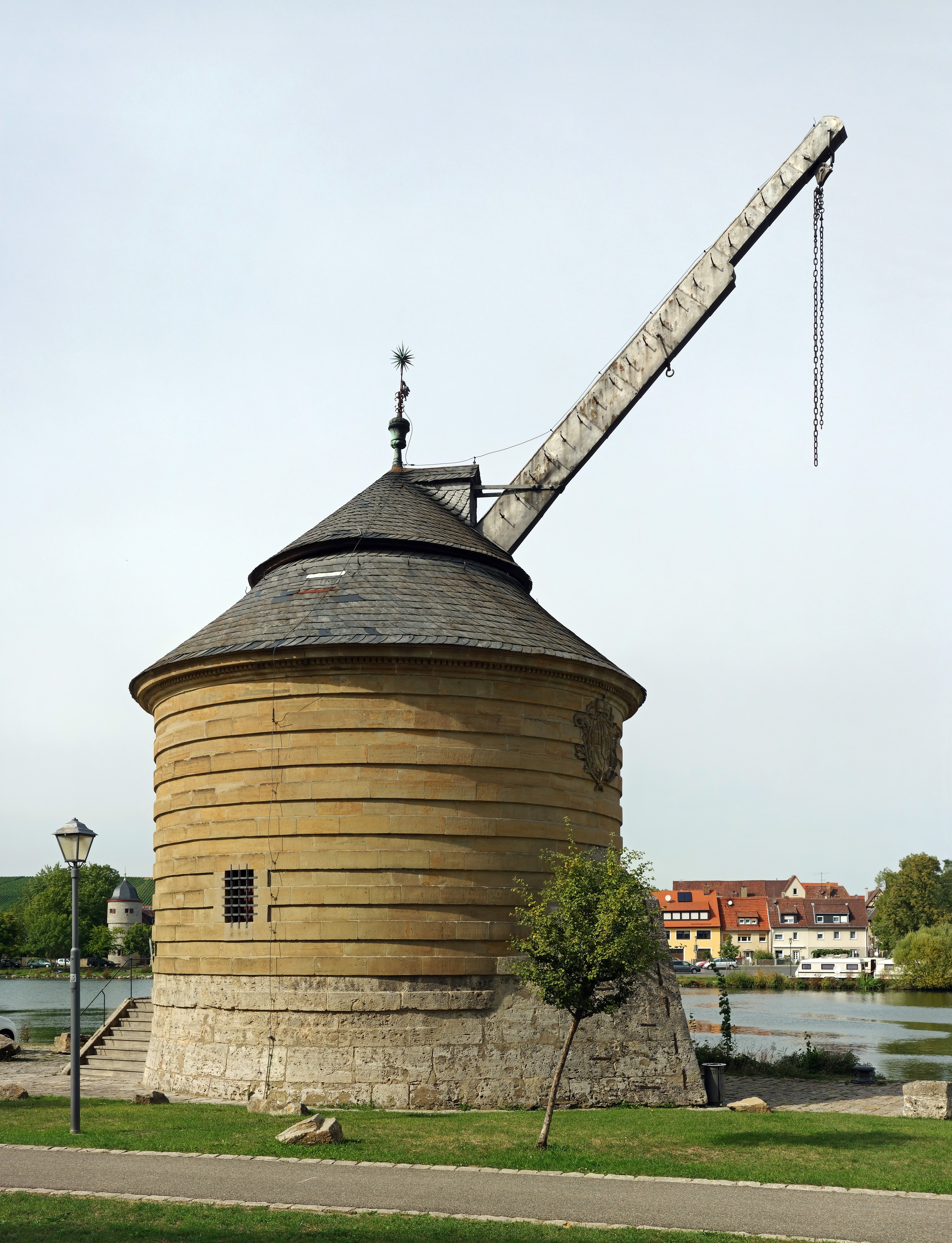 A treadwheel crane at the riverside of Marktbreit, preserved as cultural heritage.